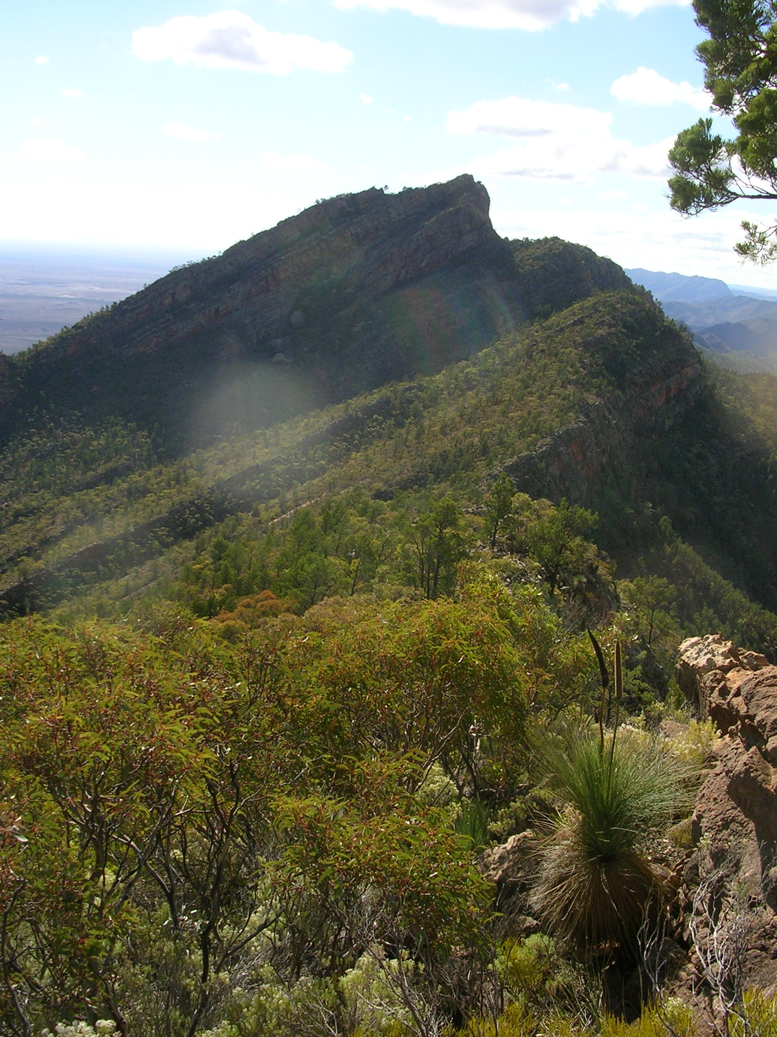 Picture of Mt Abrupt, in Wilpena Pound SA